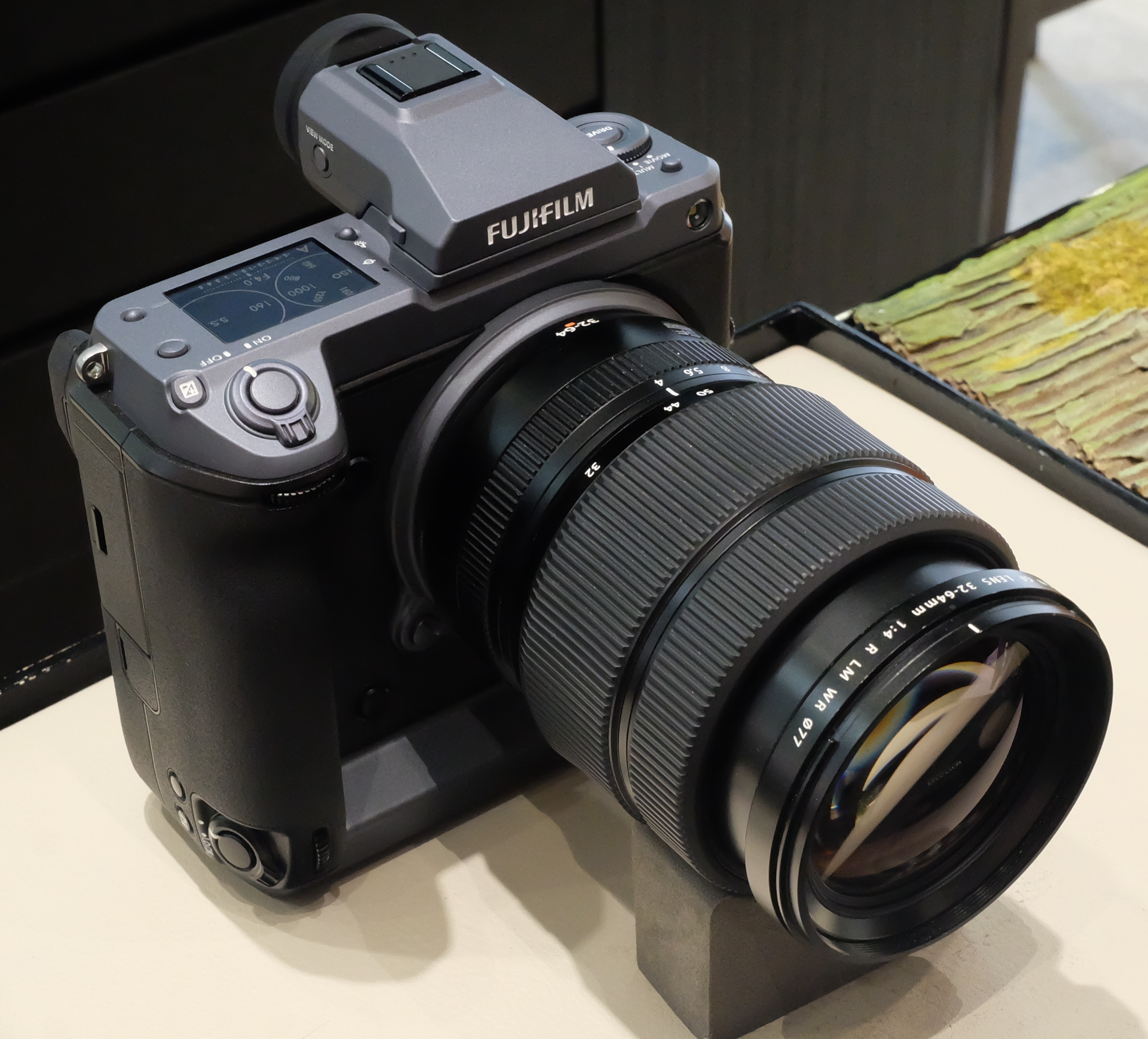 Fujifilm GFX100 (photo taken at Fujifilm Square)